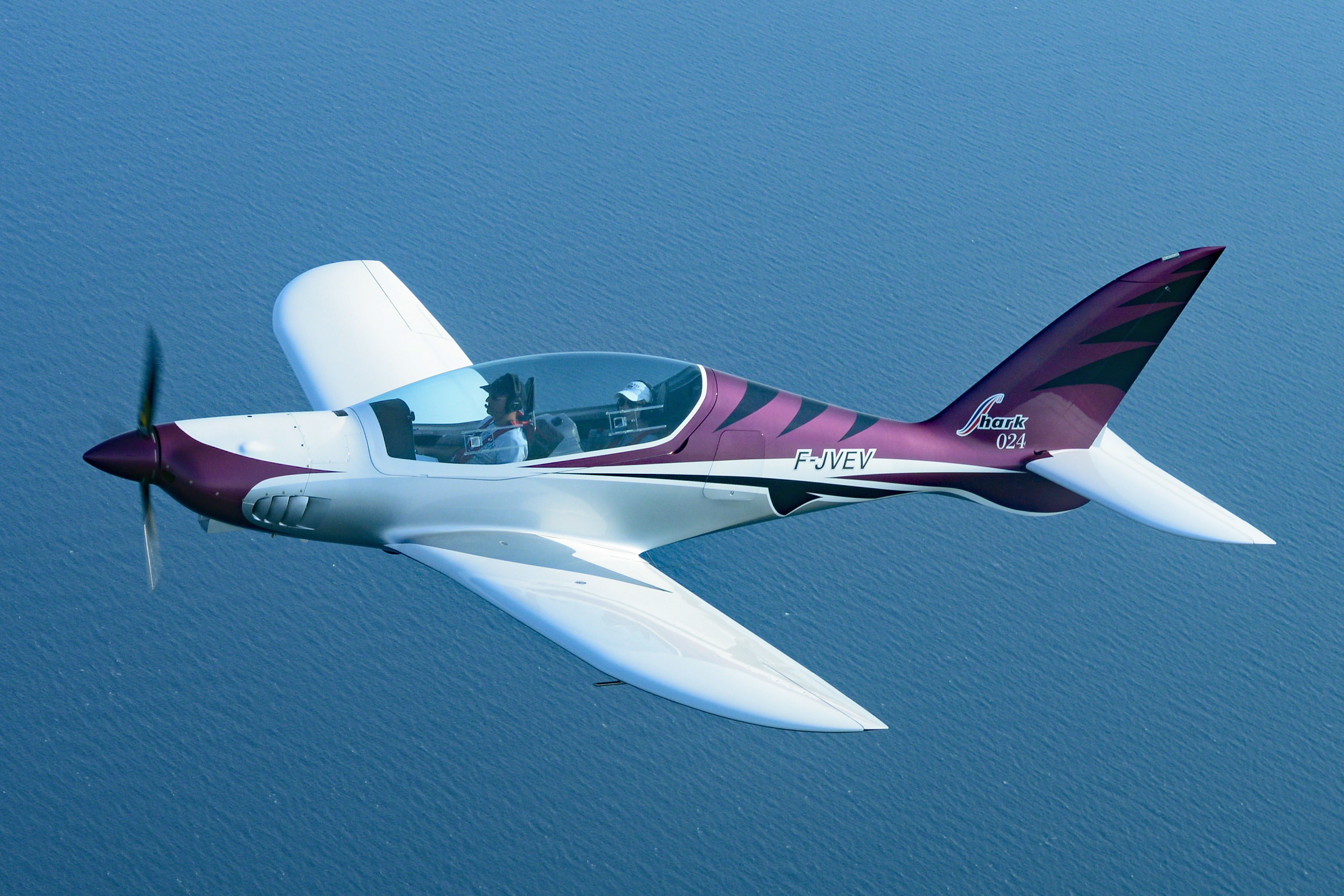 Sky is Shark's Sea.